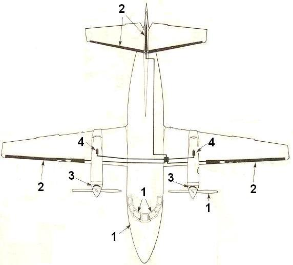 Diagram of an aircraft anti-icing system, labeled with numbers 1, 2, 3 & 4.